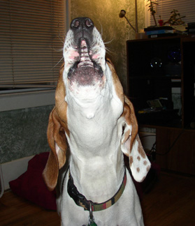 This Treeing Walker Coonhound is baying, which is a characteristic of the breed.